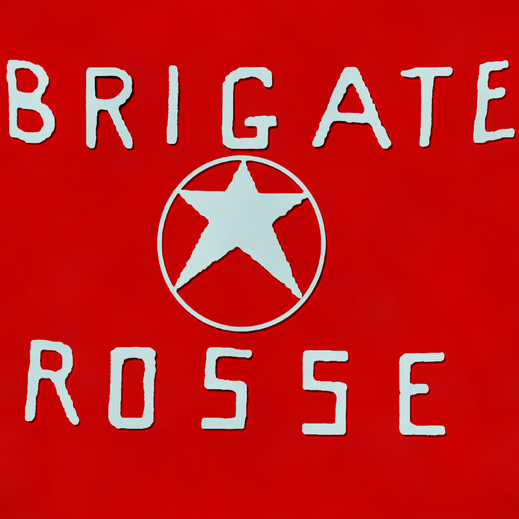 The logo for the communist terrorist group, The Red Brigades